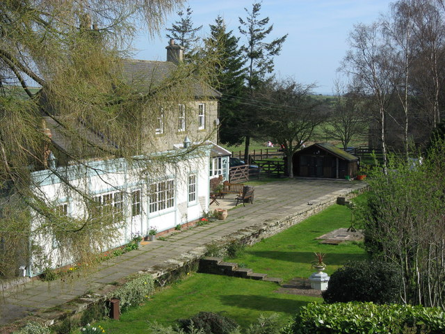 (Former) Stawart Halt railway station